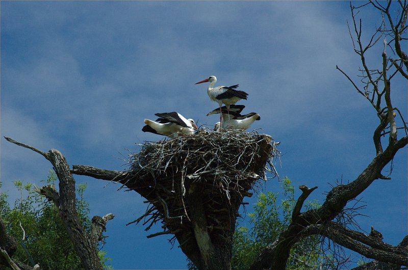 Protected landscape area Marchauen